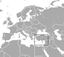 Jackass Shrew (Crocidura arispa) range